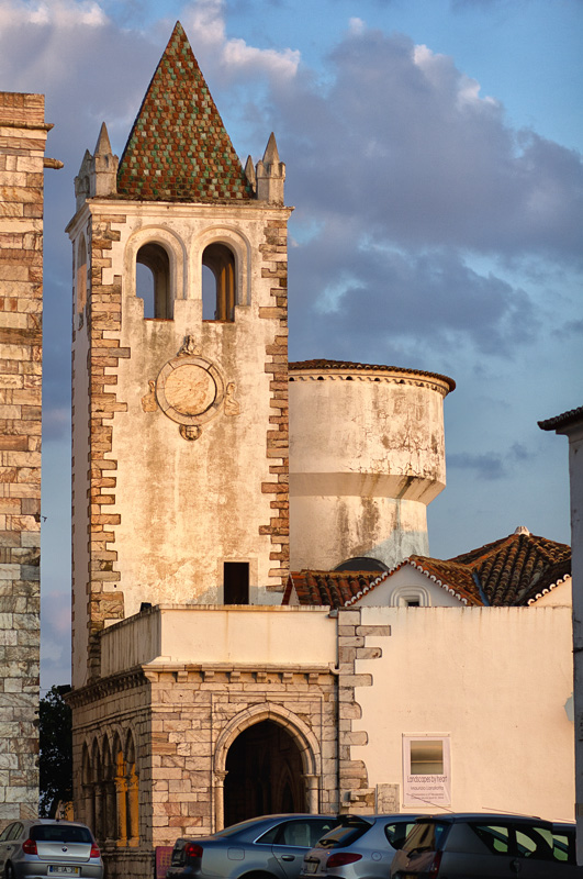 This file was uploaded for Wiki Loves Monuments in Portugal with the unique identifier 70461.